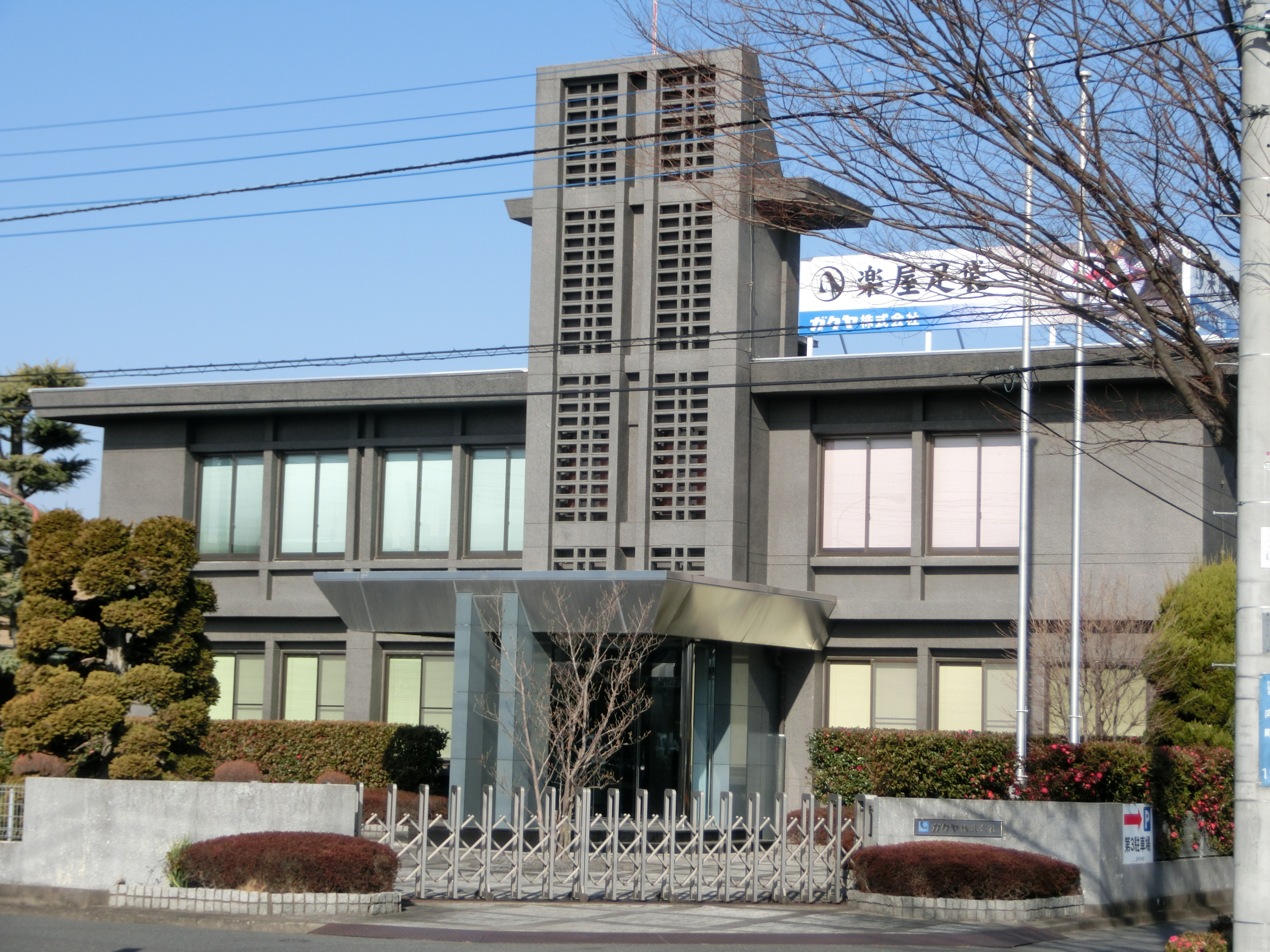 Gakuya Head Office